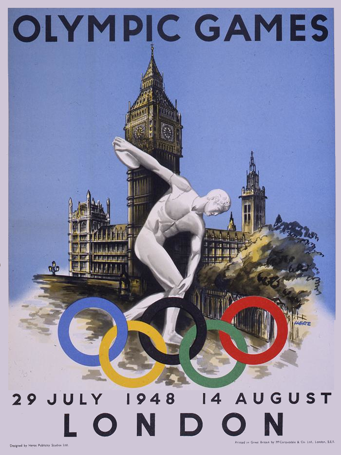 Description: Central Office of Information's copy of the official poster advertising the 1948 London Olympics. Date: 1948 Our Catalogue Reference: INF 13/224 This image is from the collections of The National Archives. Its design is a copyright of the International Olympic Committee. For high quality reproductions of any item from our collection please contact our image library.